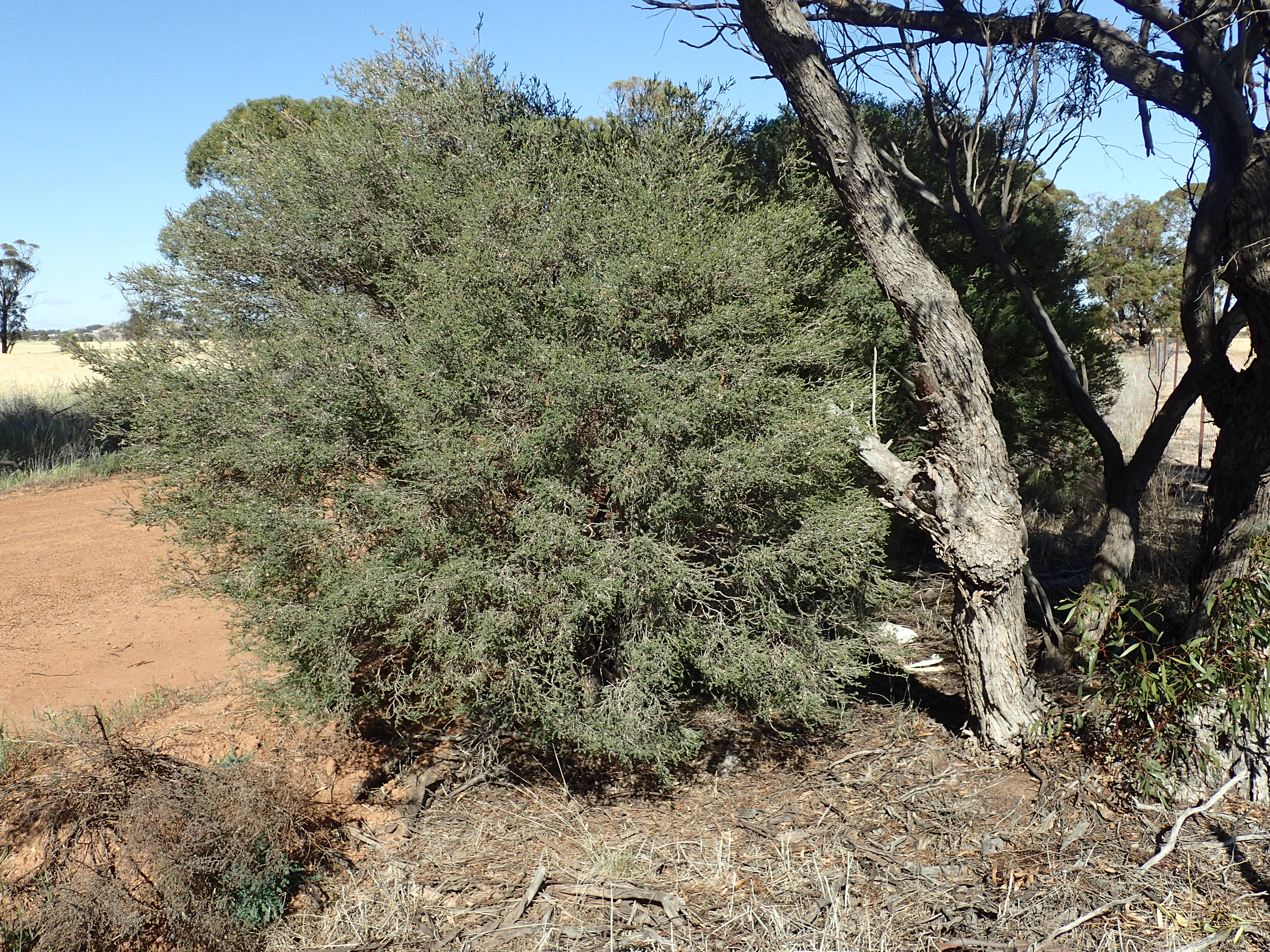 Melaleuca phoidophylla growing on the edge of Powell Road, south south east of Bruce Rock